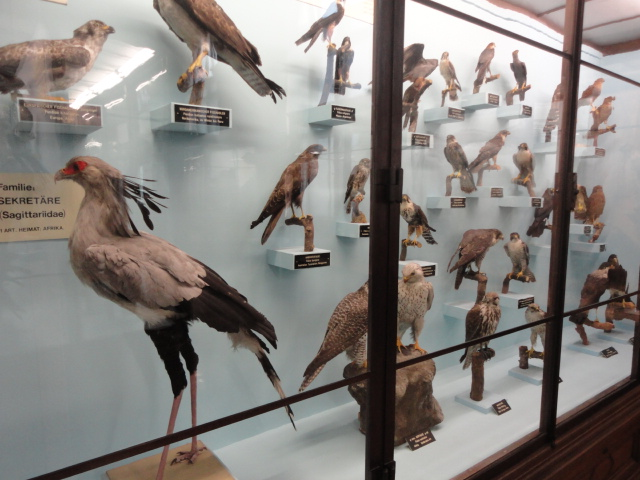 bird room at Naturistorisches Museum in Wien